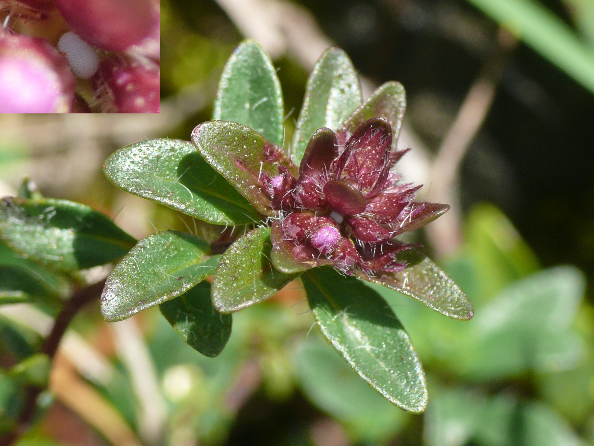 Egg of the Large Blue(Phengaris arion) in a Thymus flower. Egg magnified on top left.